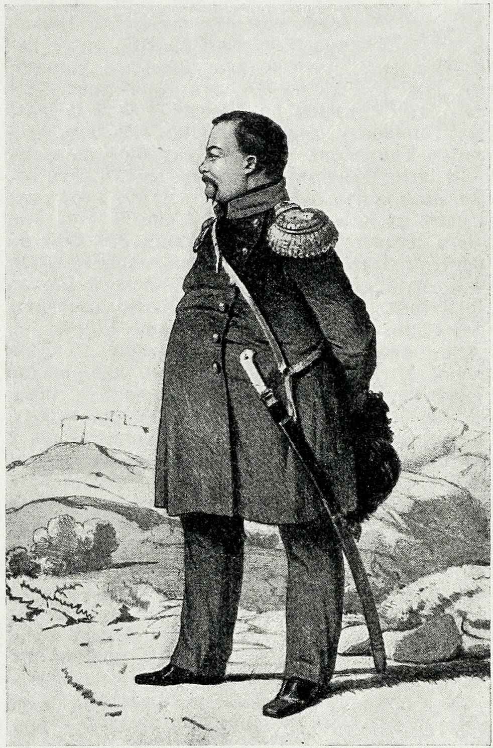 Kovalevsky, Pyotr Petrovich